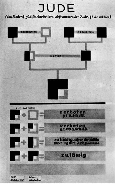 The Nuremberg Laws of 1935 were laws passed in Nazi Germany. They used a pseudoscientific basis for racial discrimination against Jewish people. This chart states that Jews en Germans are not allowed to marry. Zulassig means Allowed and Verboten means Forbidden